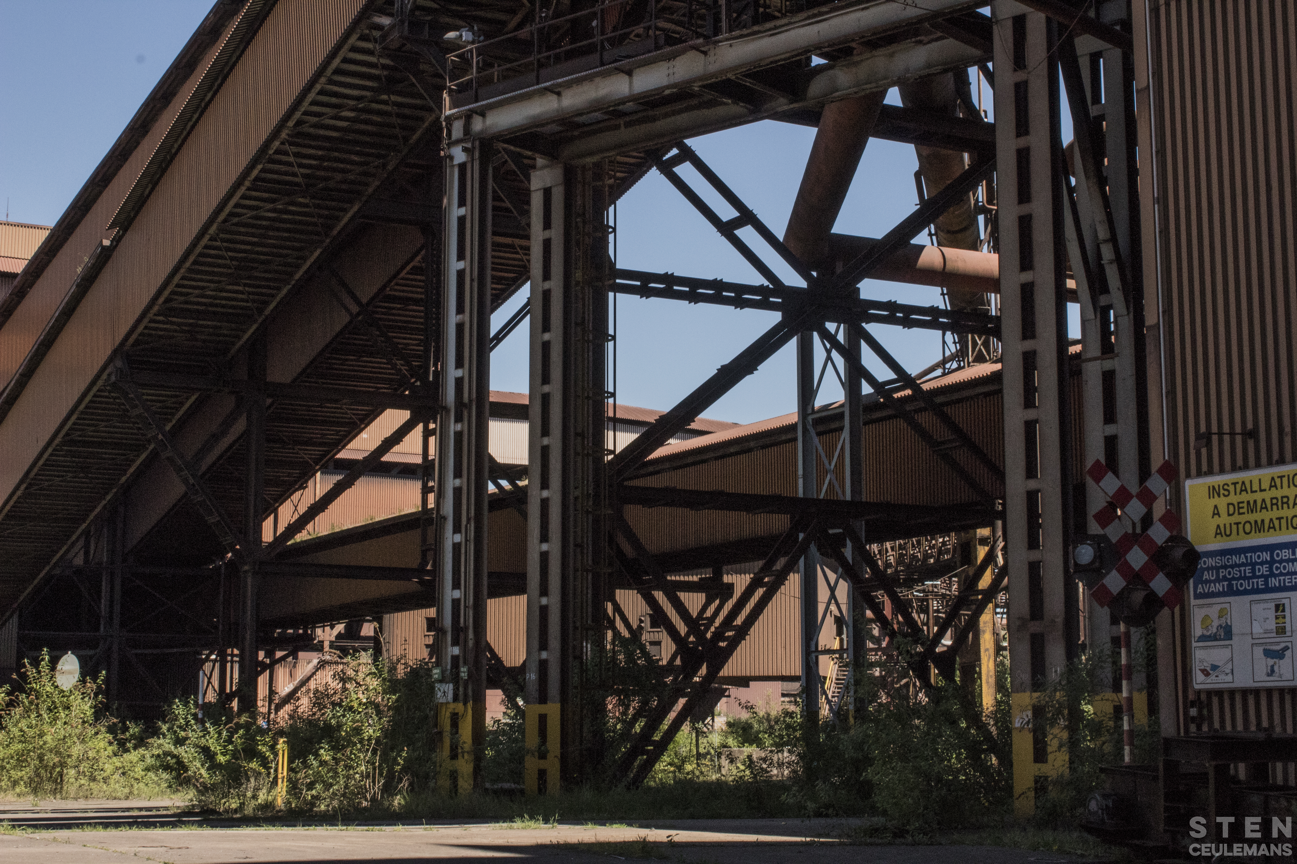 After laying empty for three years nature is taking over...